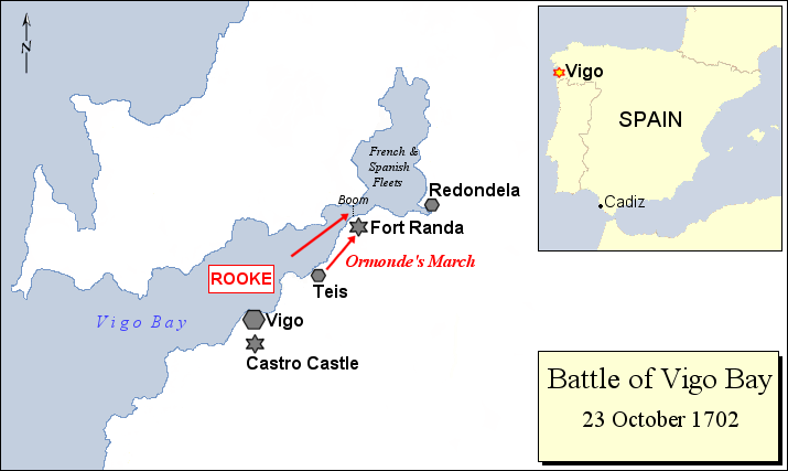 Battle of Vigo Bay 1702. Adapted from G. M. Trevelyan's England Under Queen Anne.